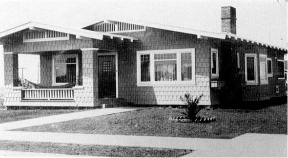 David Owen Dryden home from 1913 through 1915 (3548 Granada Street, North Park, San Diego, Calif.) Photograph circa 1914. (Source San Diego Historical Society Archives. Photo circa 1914.) Source link